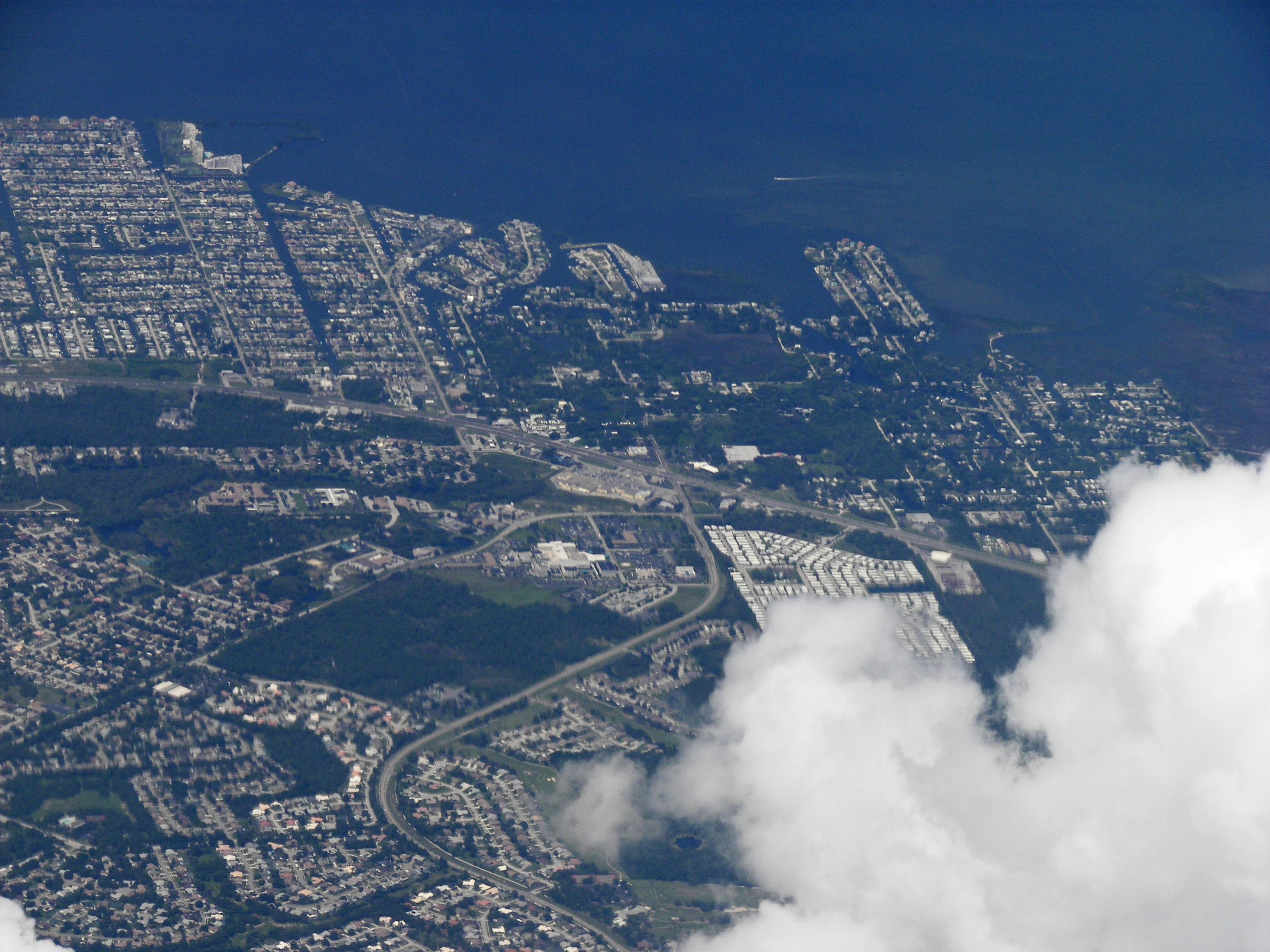 Aerial view of Hudson and Hudson Beach, Pasco County, Florida at the intersection of U.S. Route 19 and Hudson Avenue.